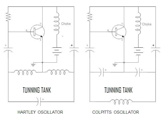 Diagram showing comparison between Hartley and Colpitts oscillator